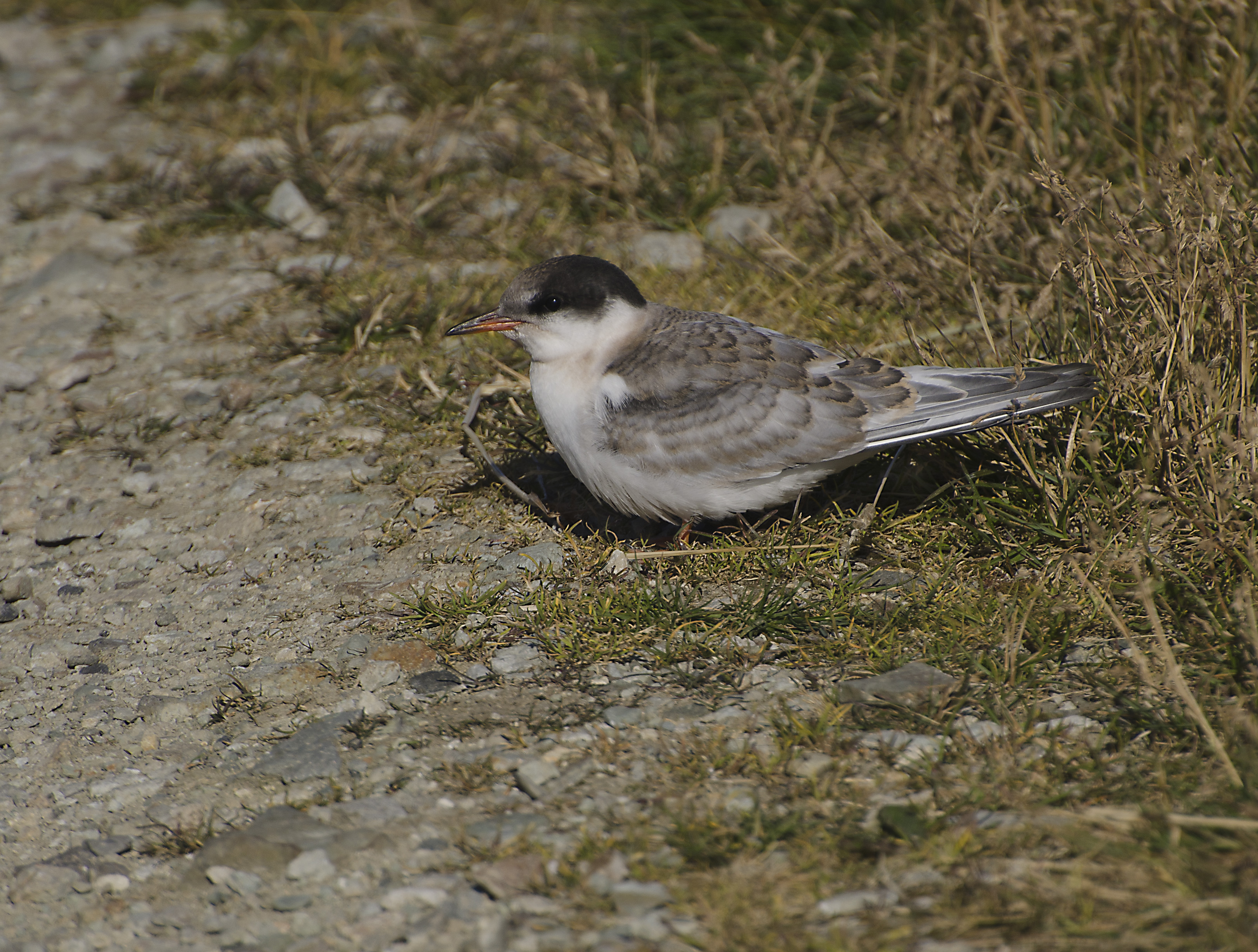 Juvenile arctic tern, Arnarstapi, Western Iceland